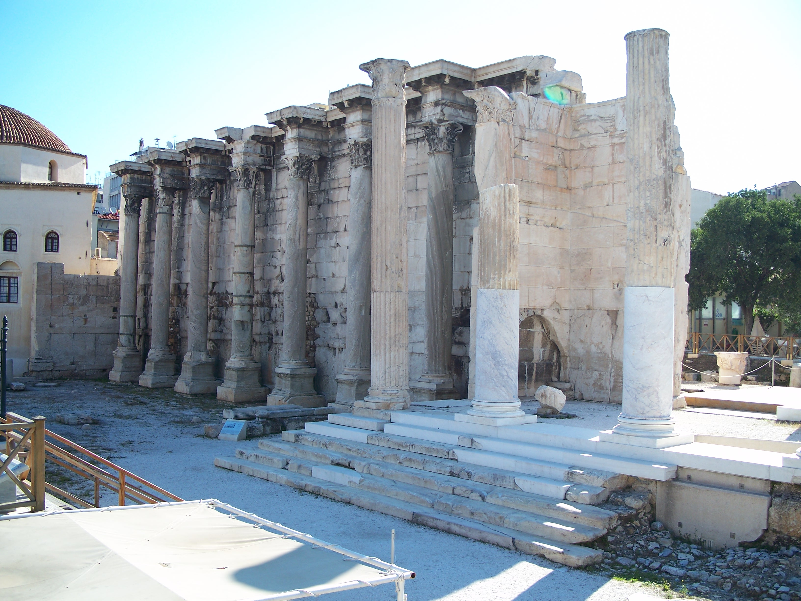 The dome of the ancient mosque called "Pasha dzami" (Pasha Mosque) in Athens, and the nearby "Library of Hadrian".